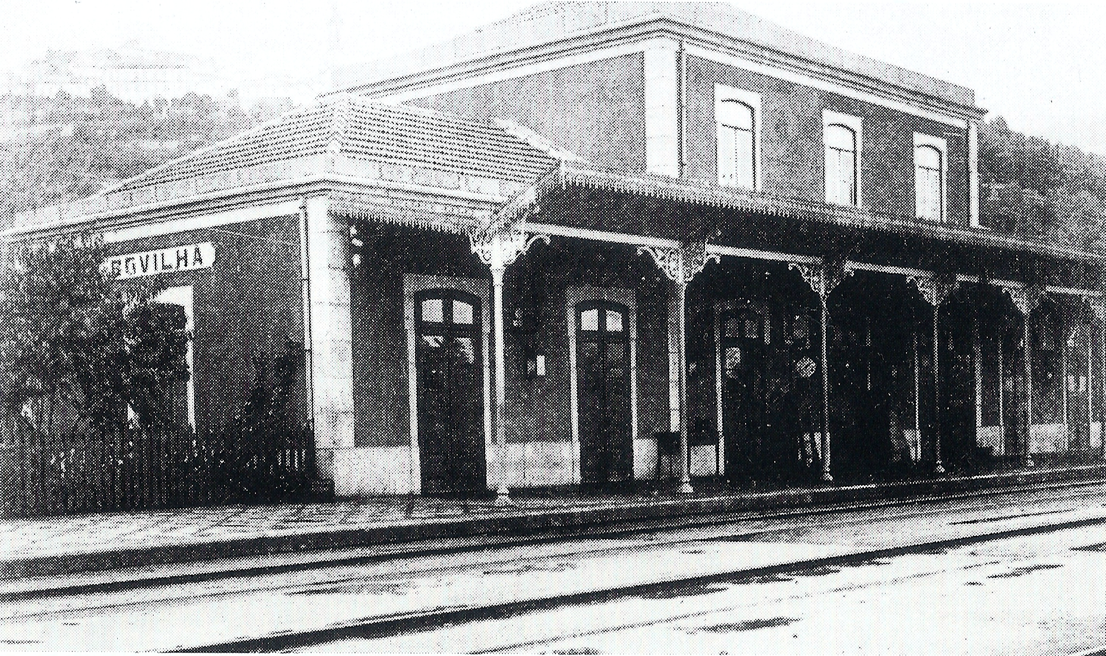 Covilhã train station, in the Beira Baixa Railway, in Portugal.